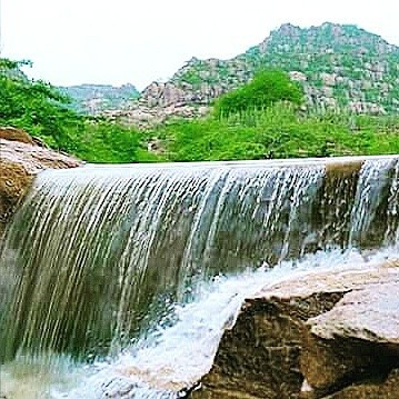 Nagarparkar (in Tharparkar District, Sindh, Pakistan) after rain. Unbelievable pictures of Tharparkar desert (also named Thar desert) after the rain. The annual rain shower is a blessing for people living in the Thar desert. The desert is suddenly buzzing with activity as people become occupied with cultivating the land as the dull, arid landscape transforms into a luscious green. With a population of 1.4 million people and five million livestock, the Tharparkar District is spread over 19638 sq kilometres in southern Sindh. Known for its rich culture, natural beauty, and peace, Thar is a fertile desert and the livelihood of Thari people depends on rainfall agriculture.